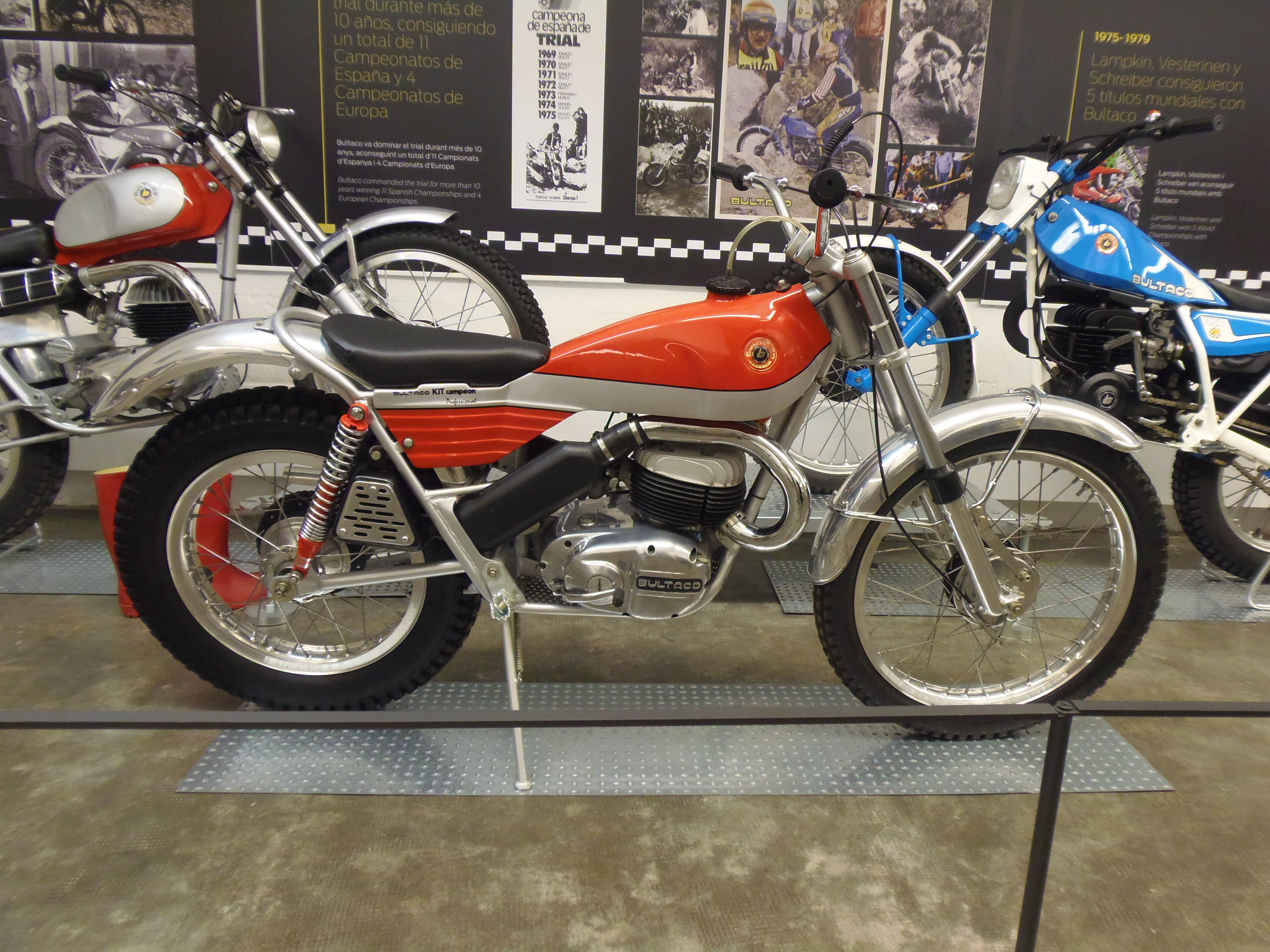 Bultaco Sherpa T Model 80, 250 cc, 1971. Aka "Kit Campeon" due to its group of tank and side covers in just one single piece, which originally was to hitch the previous version, Model 49.